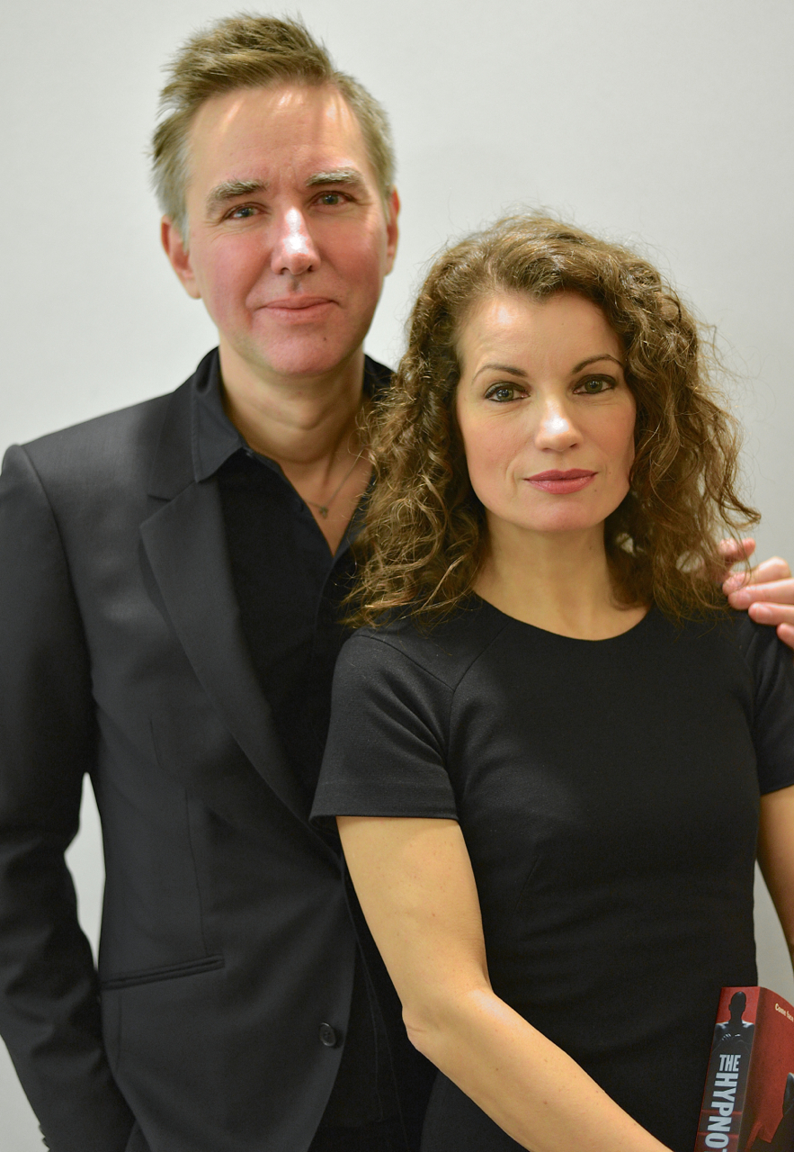 Swedish literature month was launched on 1 November 2012, involving projects around the world to promote Sweden's literature exports. The grand finale took place on Thursday 22 November at the Press Centre at Rosenbad, with a number of Swedish authors in attendance.